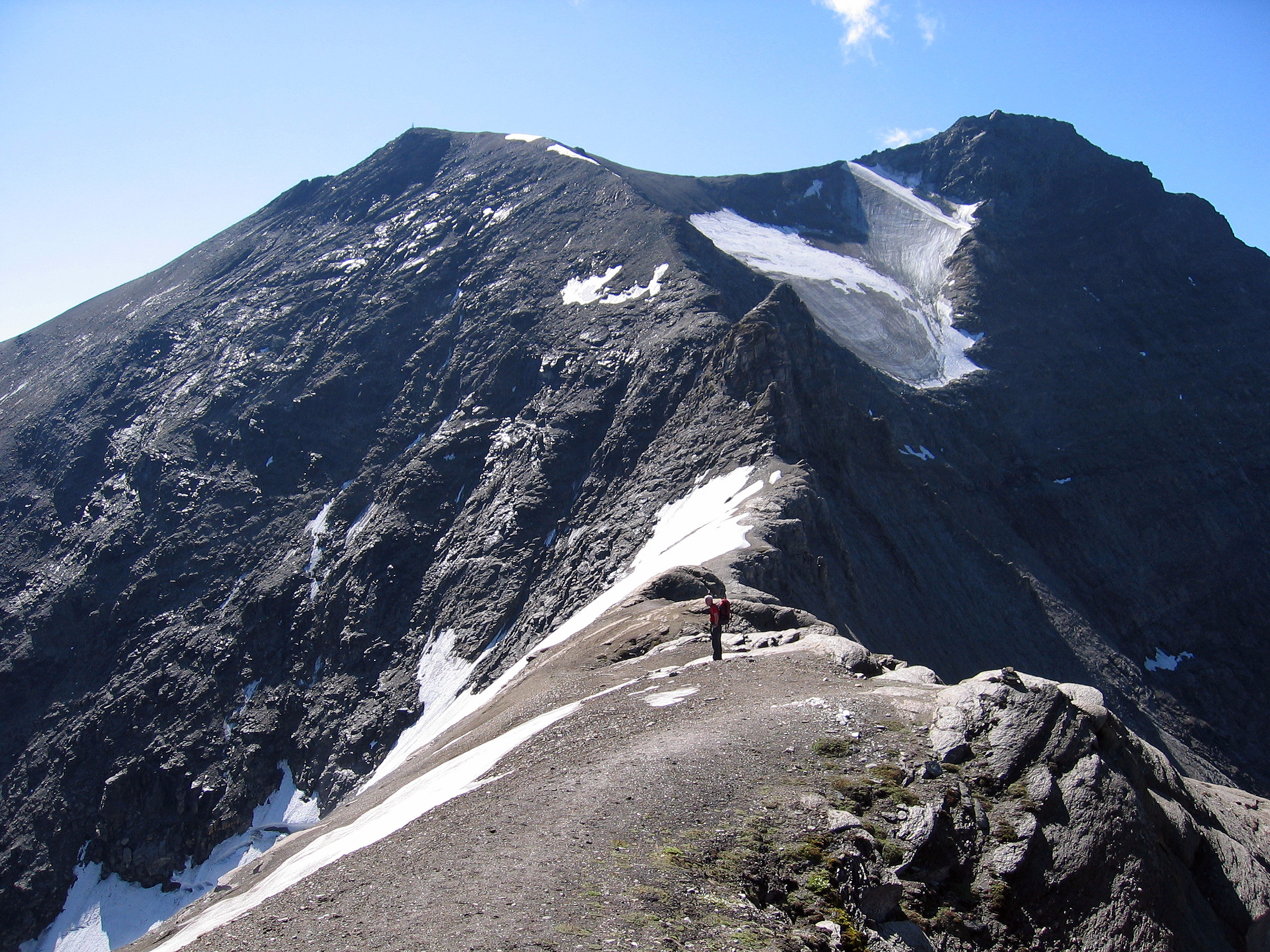 Hoher Tenn seen from northwest, left Schneespitze, right Hoher Tenn